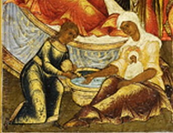 Birth of the Virgin Russia, Old Believers Workshop, 19th century